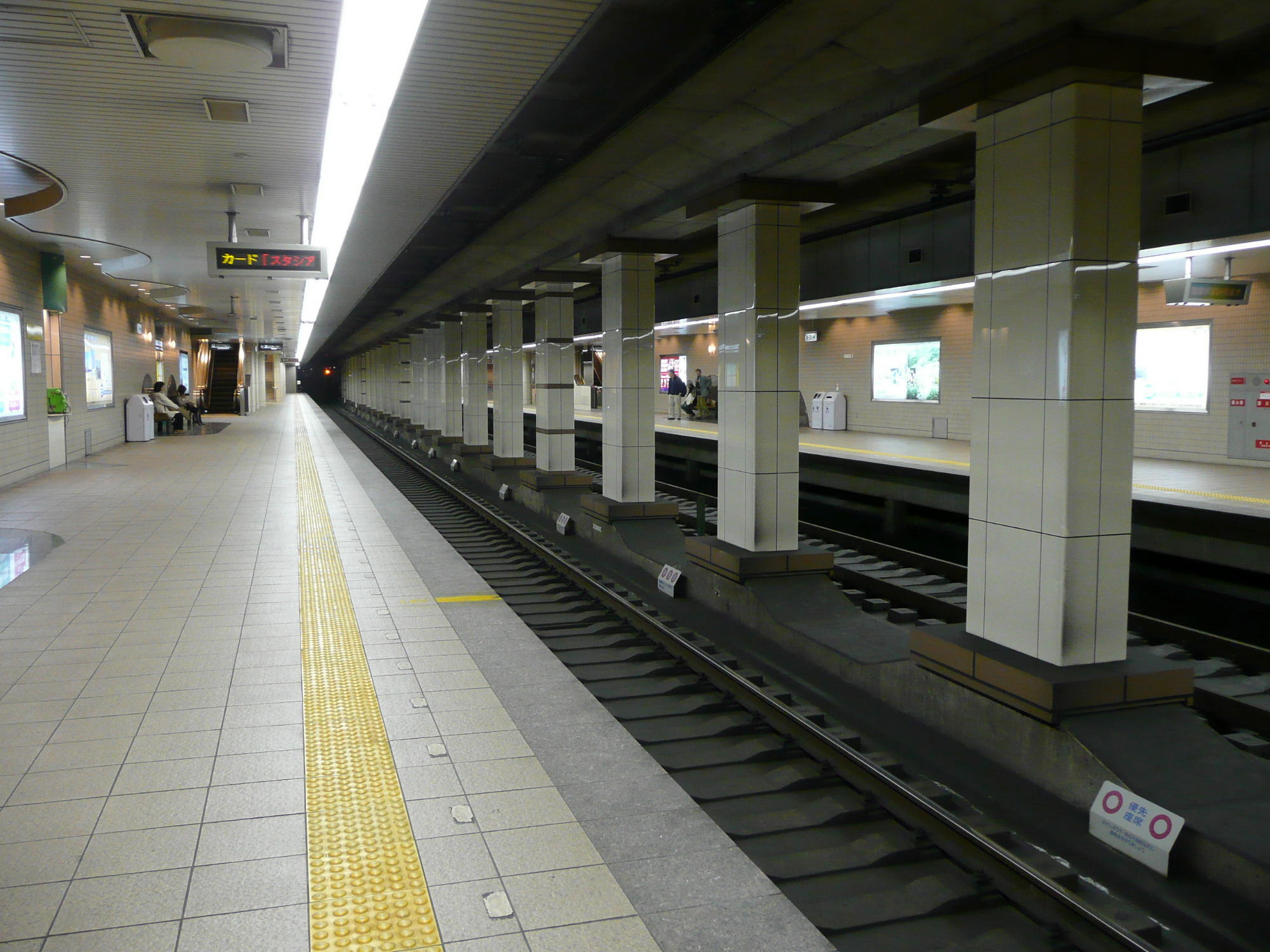 Hanshin Electric Railway,Main Line,Fukushima Station platform. /阪神本線福島駅ホーム